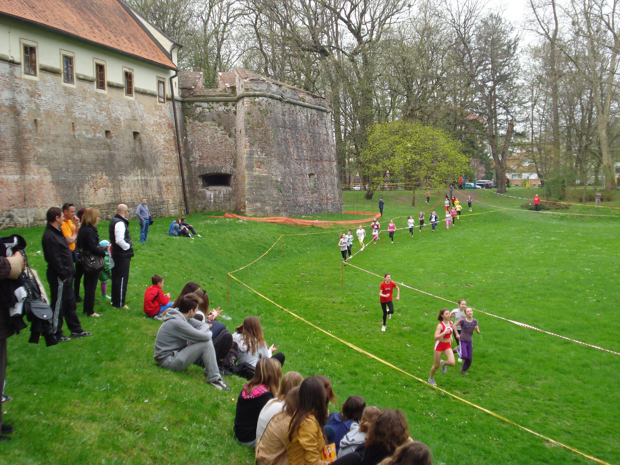 Medjimurje County Springtime Cross-Country Race 2013 in Čakovec, Croatia - final part of the race below the Zrinski Castle